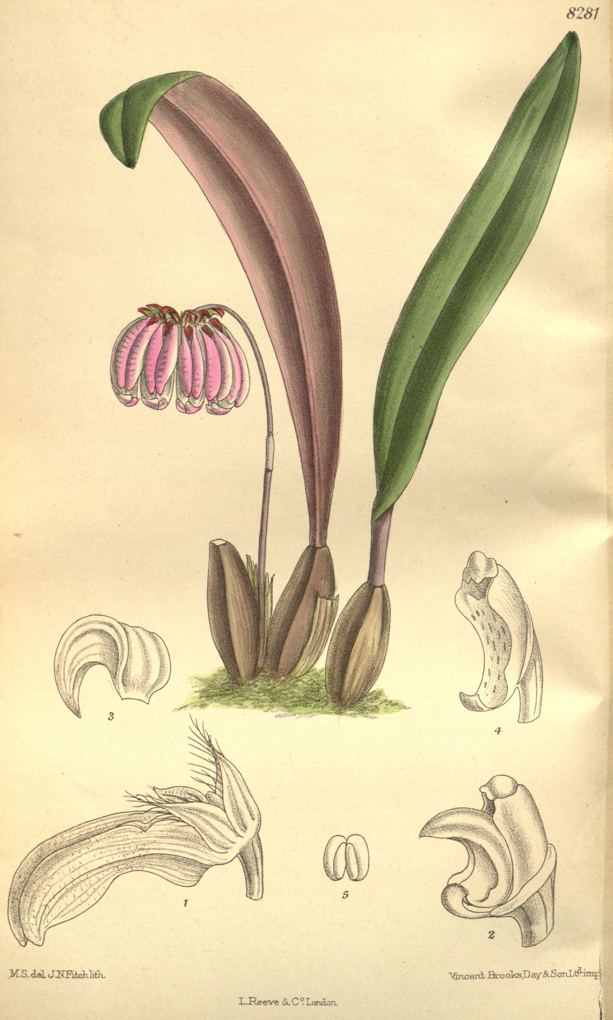 Illustration of Bulbophyllum auratum (as syn. Bulbophyllum campanulatum)